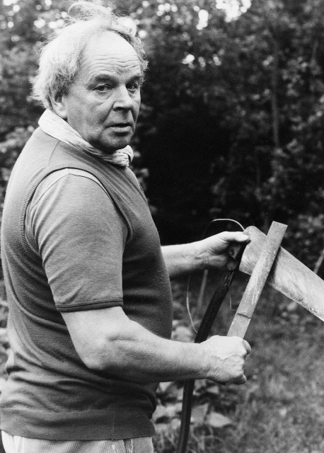 Karl Schaper